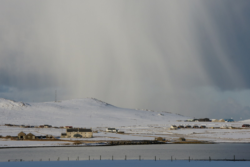 Snow shower over Buness and Muckle Heog The view is across the voe at Baltasound towards Buness, the house in the foreground, and Muckle Heog, the hill in background.